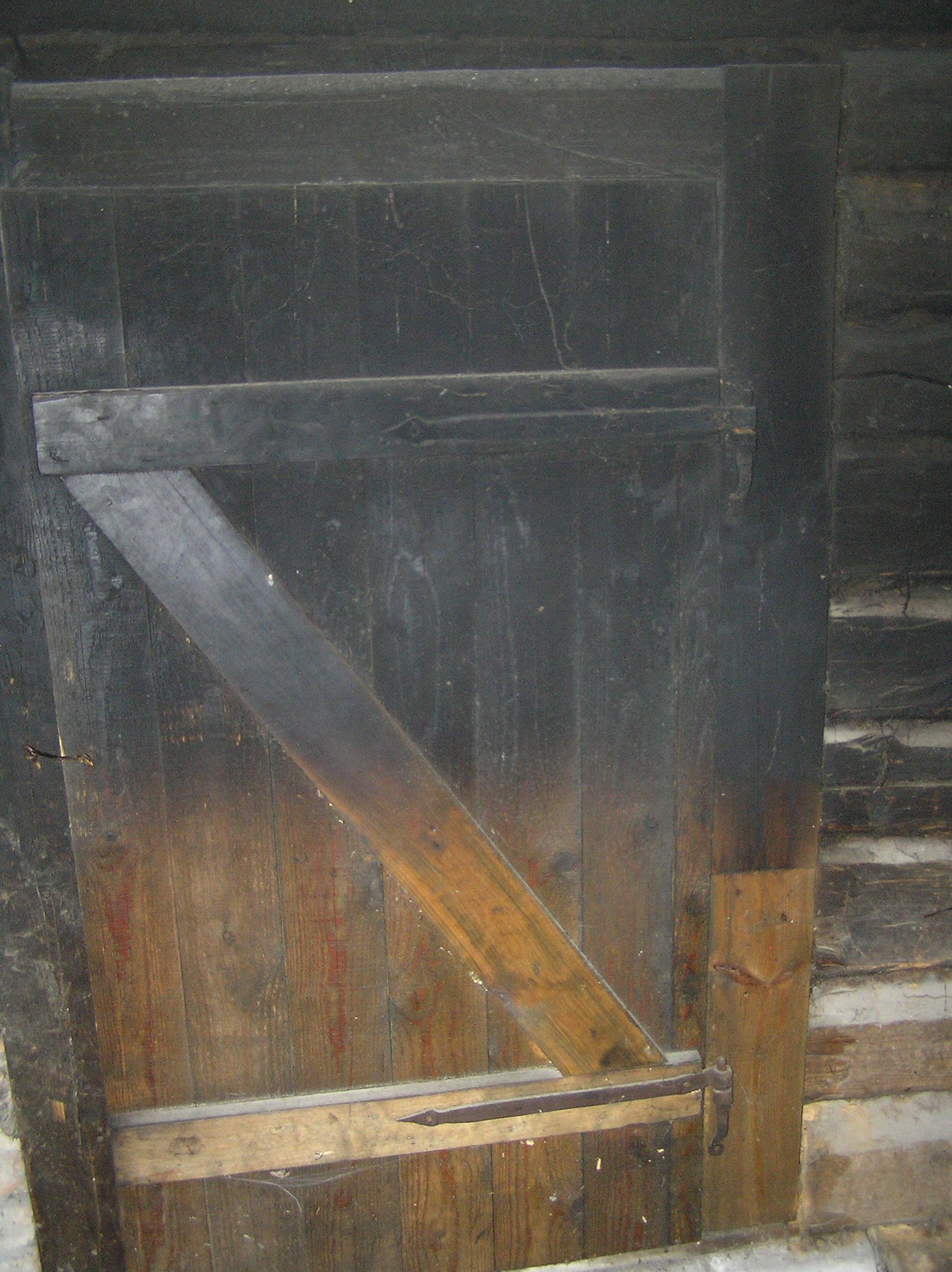 Estonian smoke sauna